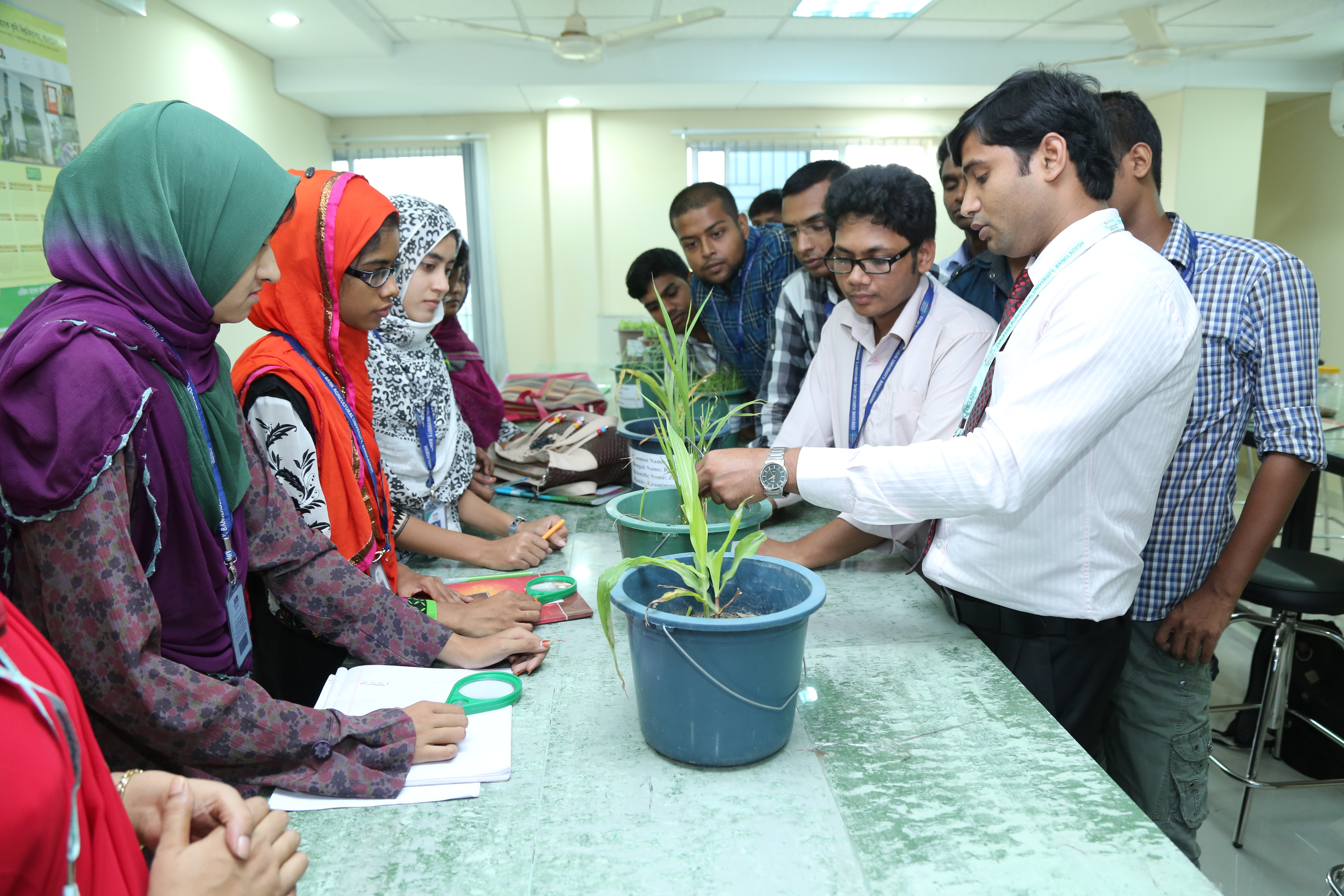 Students working on Agronomy Practical Class